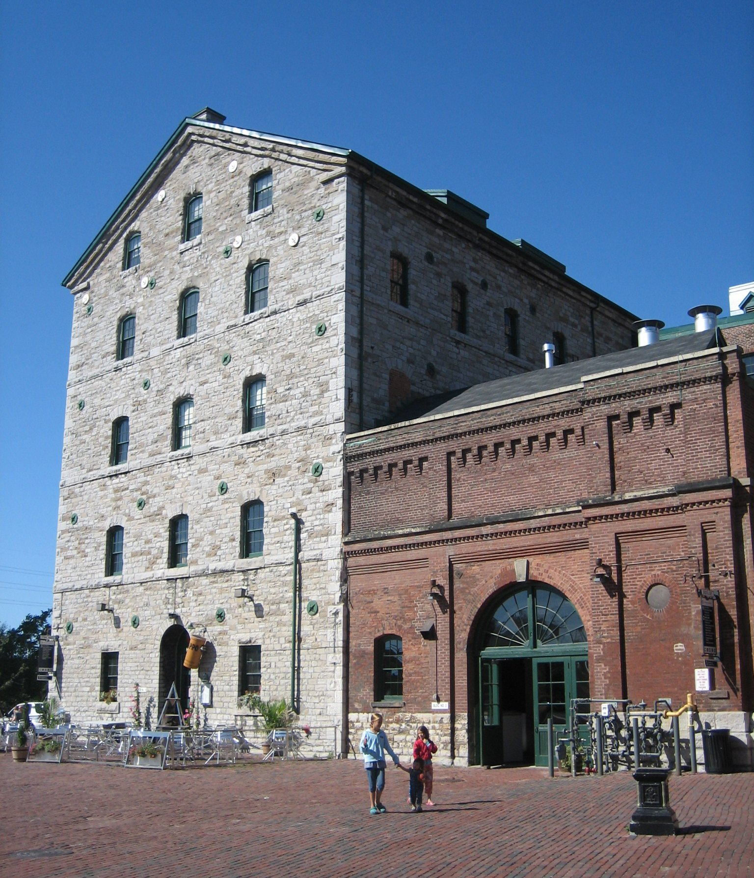 Stone Distillery, Part of the Distillery District in Toronto